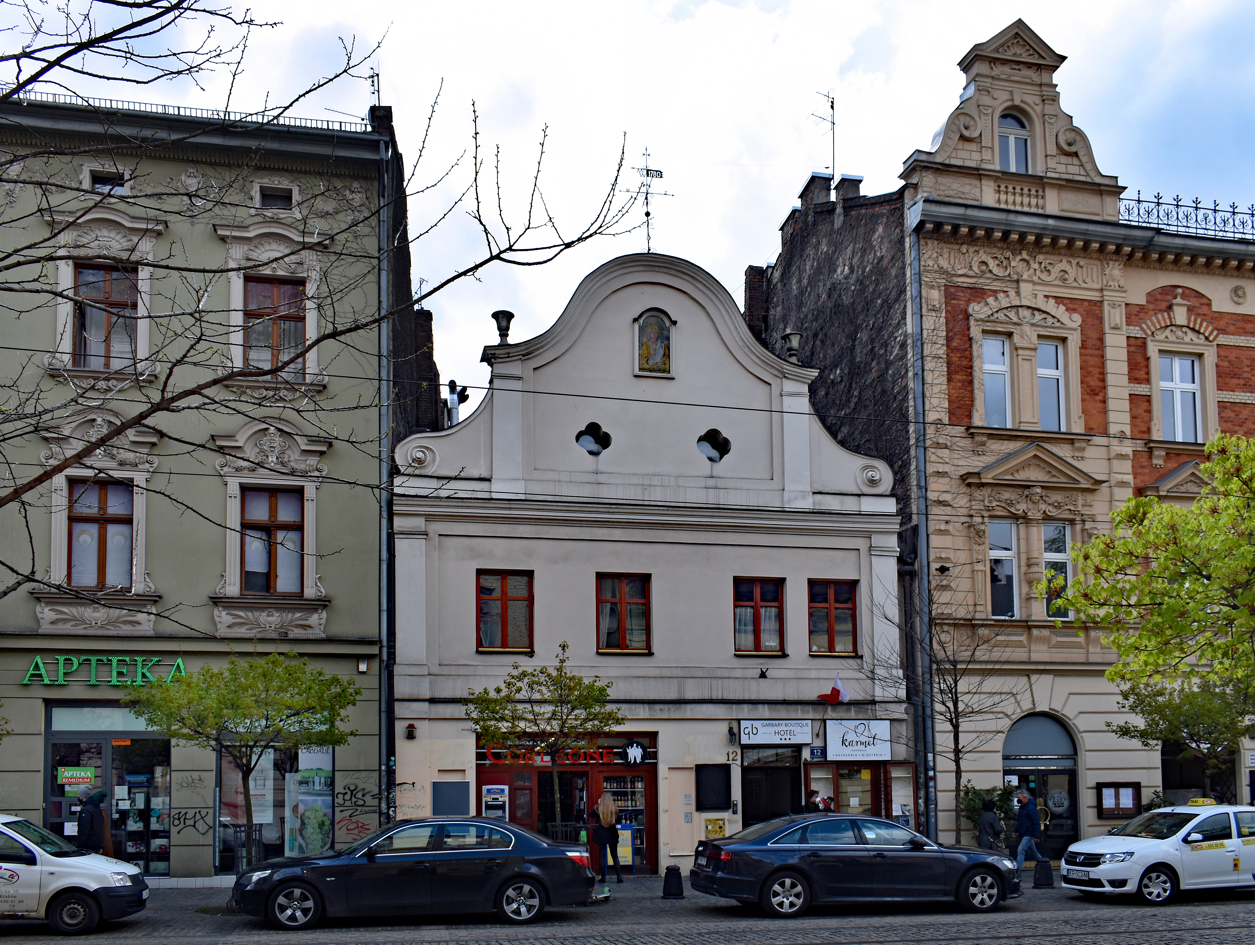 Garbary Town Hall, 12 Karmelicka street,Krakow,Poland